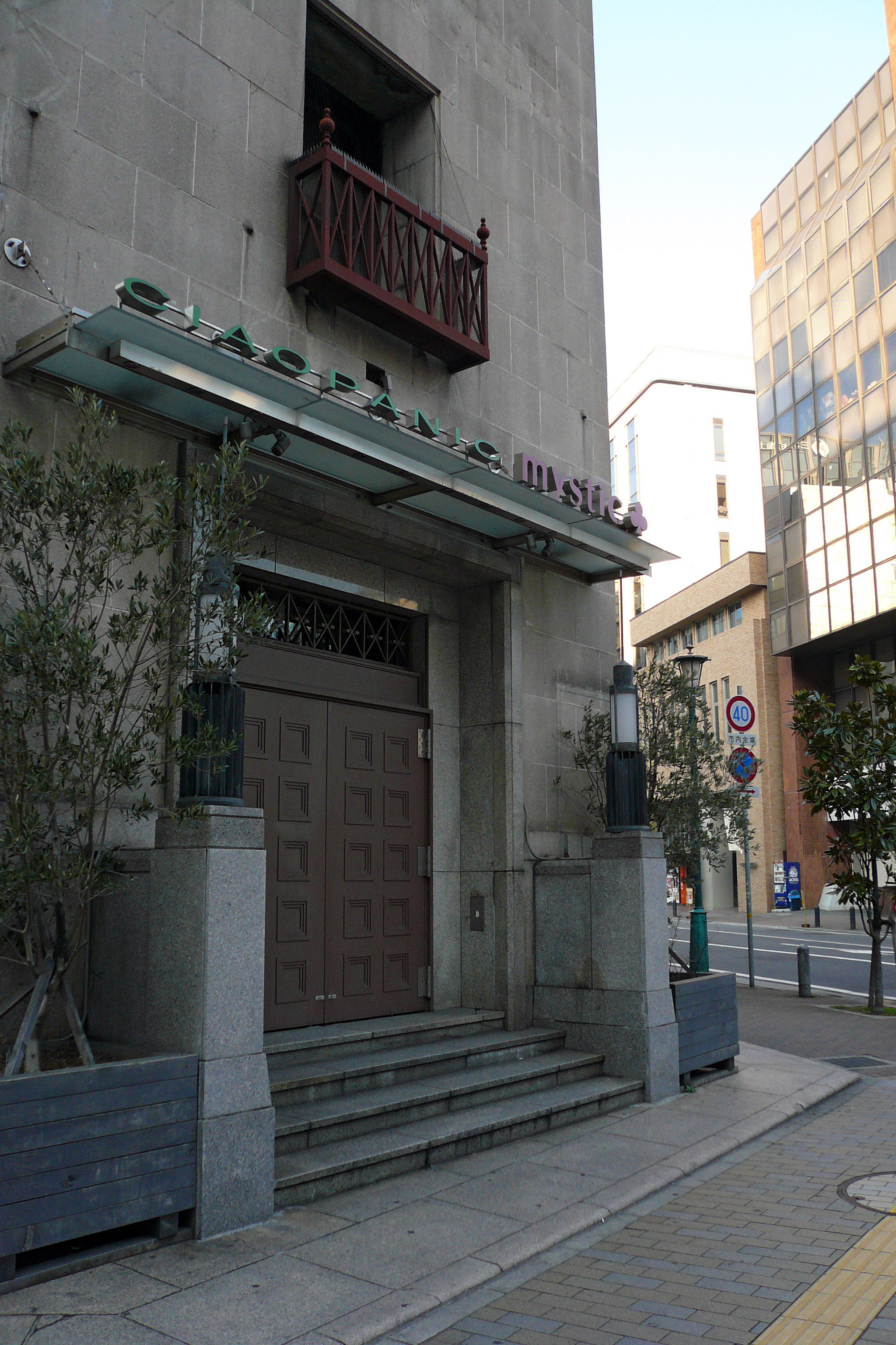 Sakaemachi street in Kobe, Hyogo, Japan